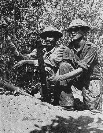 Mortar of 2/1st Punjab (now 2 Punjab, Pakistan Army) in action. The Arakan, Burma, 1944. Published in Qureshi, Maj MI. (1958). The First Punjabis: History of the First Punjab Regiment, 1759-1956.